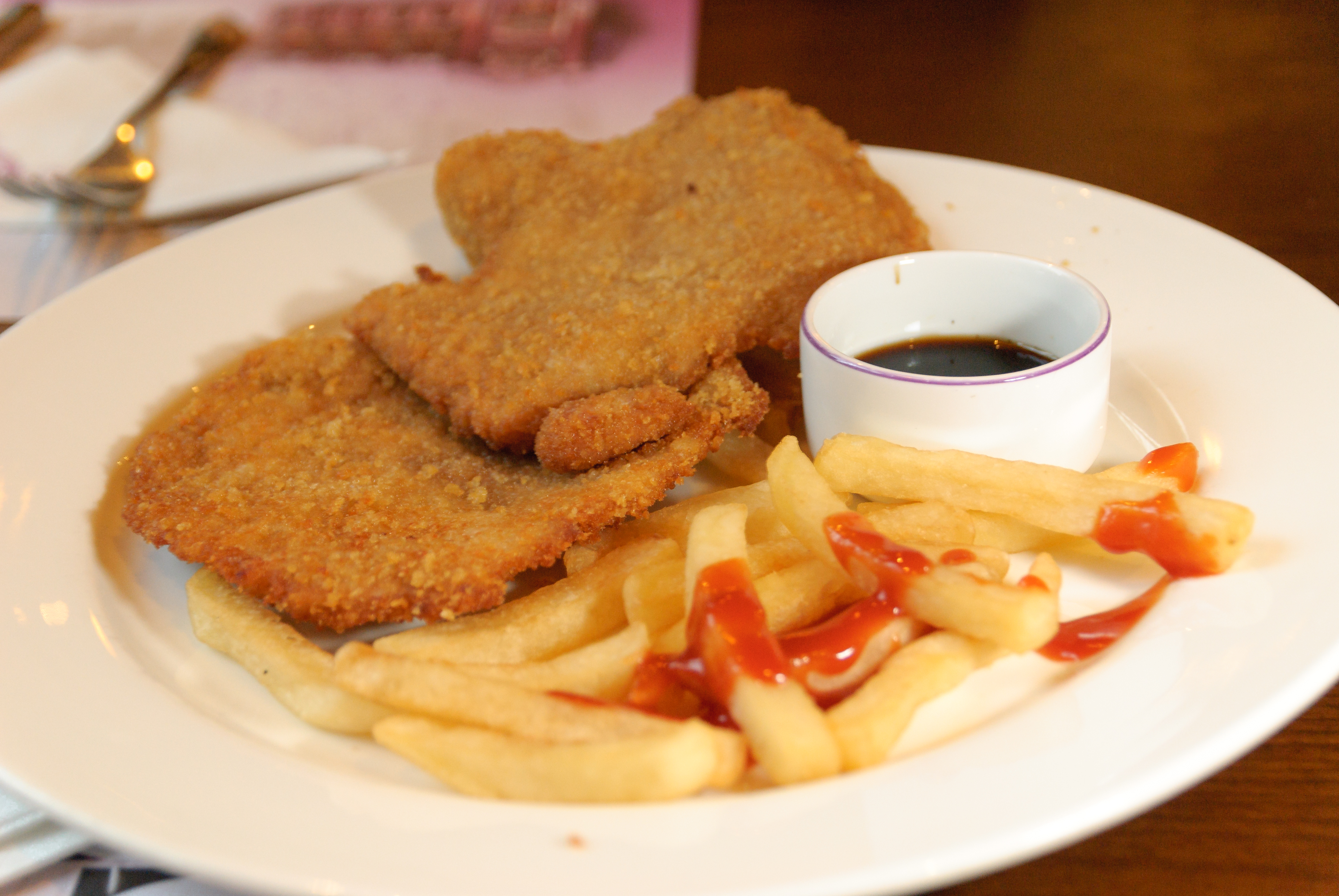 Shanghai zhazhupai（Shanghai-style fried pork chop) at Deda Western food restaurant